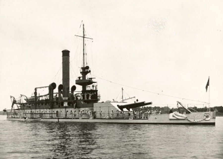 A photo of the USS Nevada after her rechristening as the USS Tonopah. Believed to be a Sunday, because the crew is in Dress Whites, in 1909. Original found at